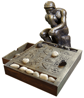 BrainStonz